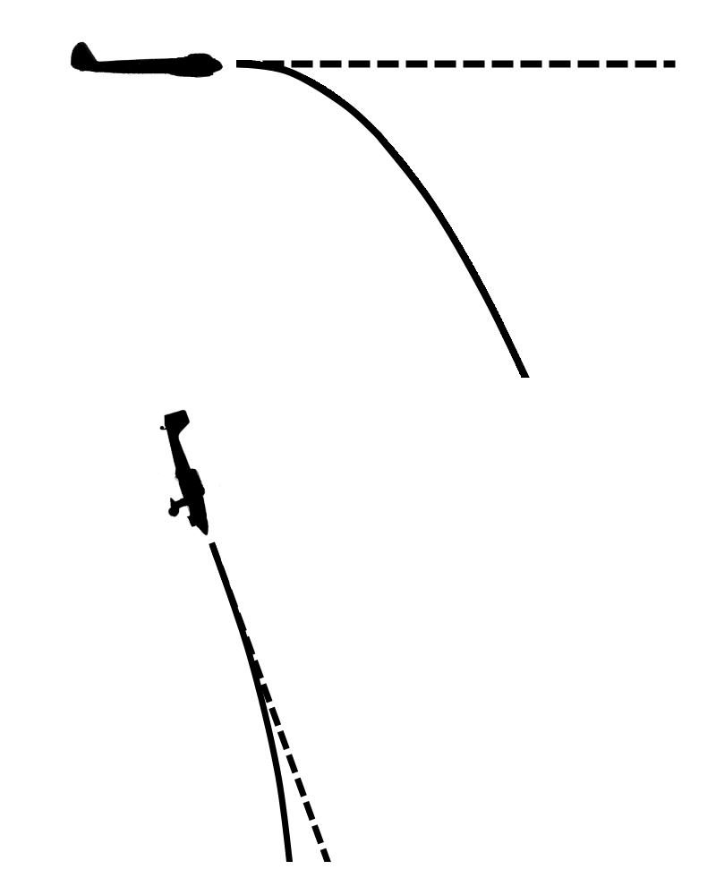 Sketch illustrating the principle of dive bombing. The dashed line is the flight path of the aircraft (that is, the extension of its longitudinal axis) while the continuous line is the parabolic trajectory of the fall of the bomb. In traditional bombing (top), the bomb's point of impact is influenced by many factors, including the aircraft's speed and altitude at the time of the release; therefore, without sophisticated aiming devices this technique generally inaccurate. In dive bombing, the bomb is falling almost exactly in front of the aircraft and the pilot has the point of impact almost exactly in his sight (more exactly, as the angle of the dive approaches -90°). After dropping the bomb, the pilot maneuvers to get back to a sufficient altitude. Since the fall of the bomb is only slightly affected by the speed and altitude of the aircraft at the time of dropping, dive bombing is generally very accurate.